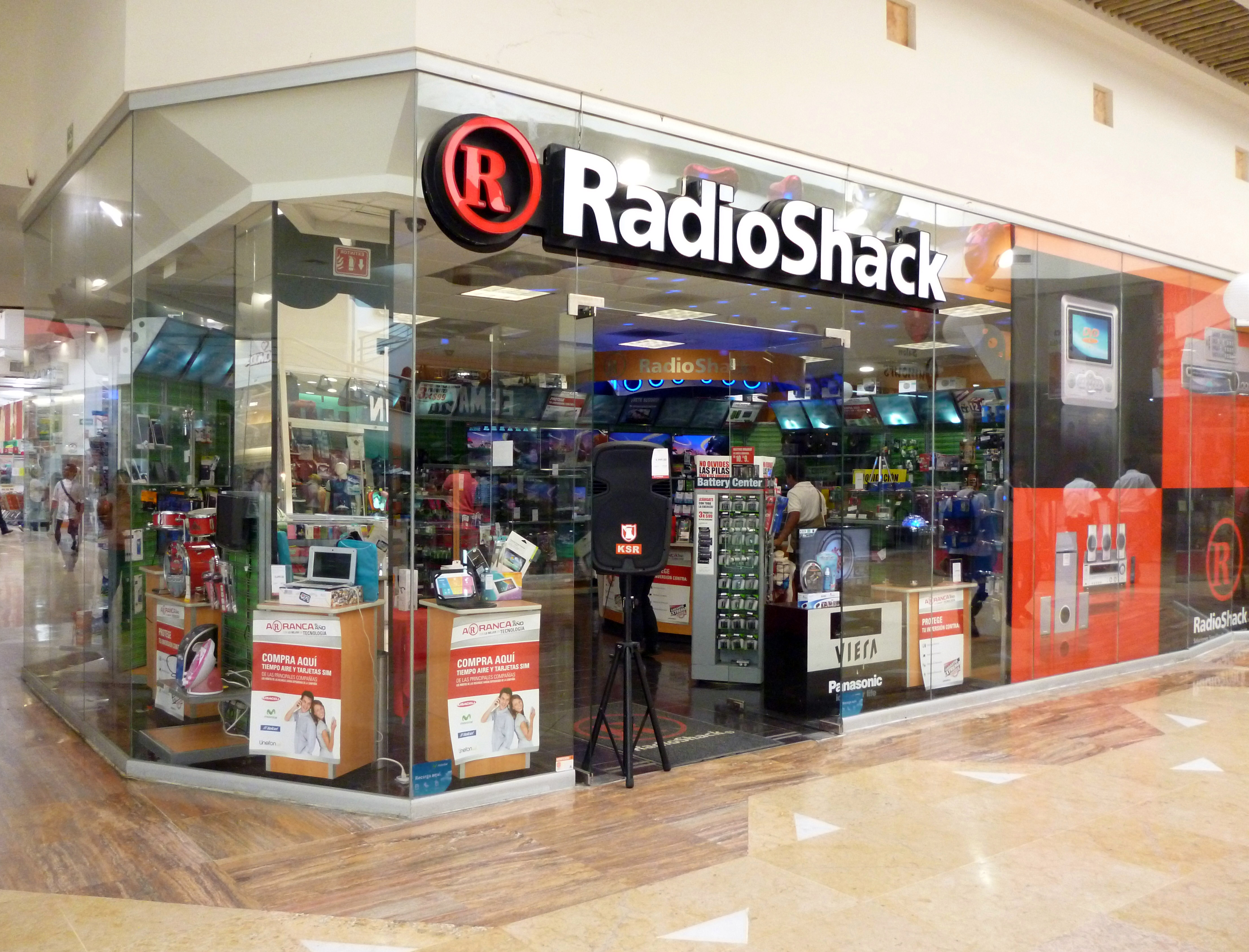 A Radio Shack store in the Plaza Caracol shopping center on Boulevard Francisco Medina Ascensio in the city of Puerto Vallarta, Jalisco, Mexico.